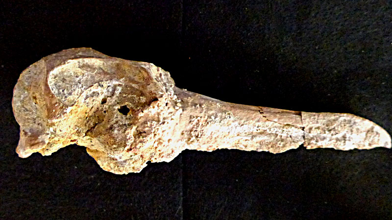 Fossil penguin skull